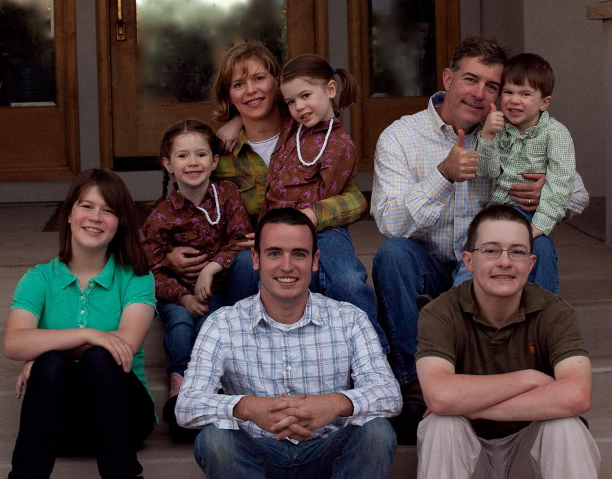 Family photo of Steve Laffey, former mayor of Cranston, Rhode Island.